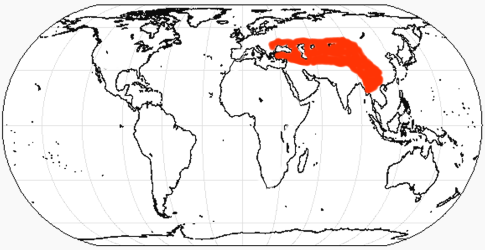 Range map of Chilotherium